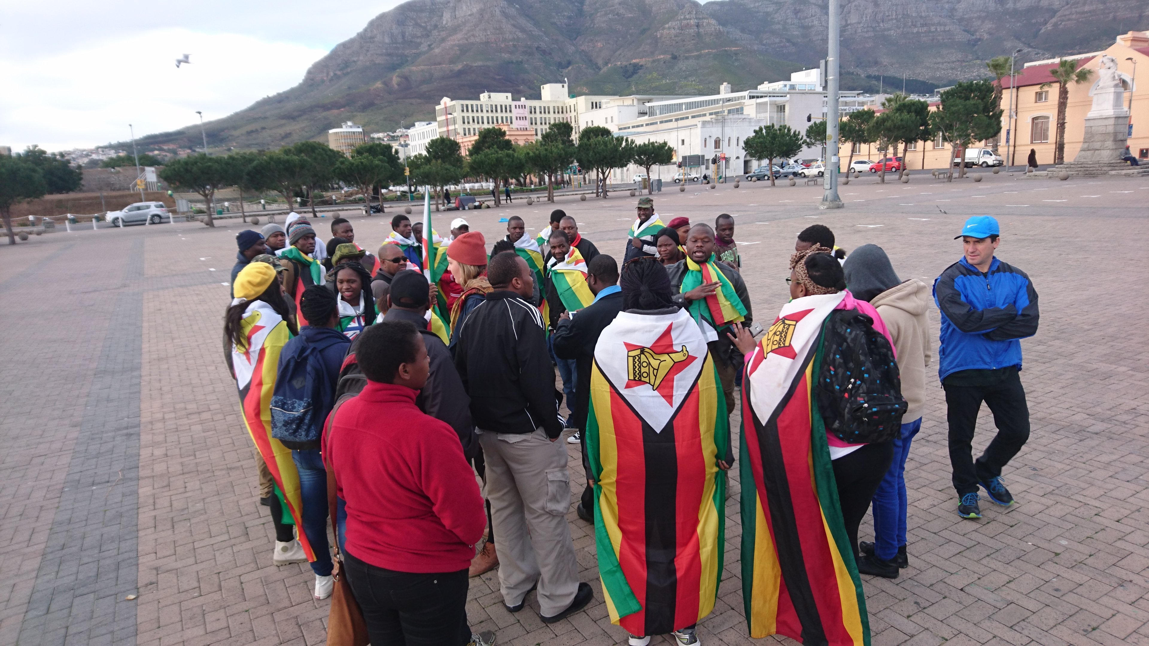 Zimbabweans protesting in Grand Parade, Cape Town, South Africa in support of the This Flag 2016 Zimbabwe protests on Saturday the 16th July 2016.